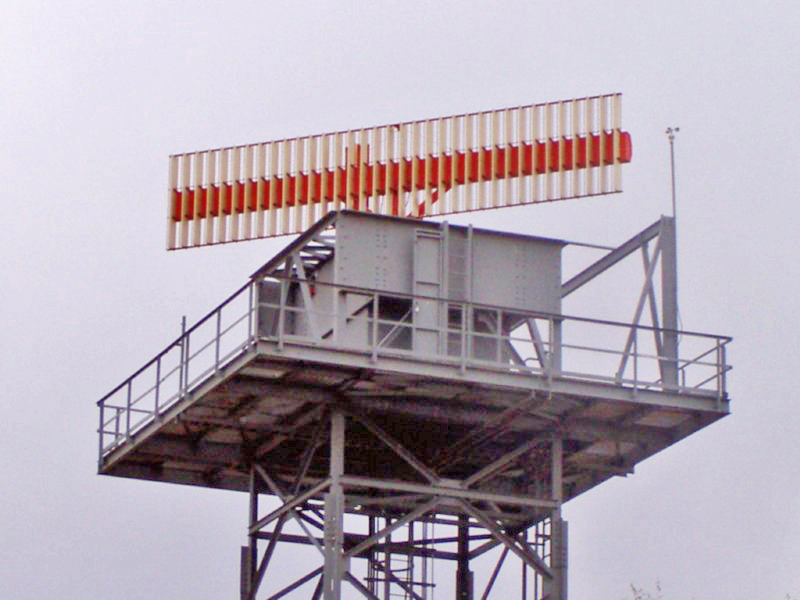 A secondary surveillance radar (SSR) near the military airport "Neubrandenburg" (ETNU) in Germany/Western-Pommerania. SSRs interrogate the transponders on civilian craft and the IFF (Identification Friend or Foe) units on military craft. These units transmit a coded signal back to the SSR identifying the aircraft and giving its altitude, so this information appears on the radar screen of the air traffic controller. This SSR uses an LVA (large vertical array) antenna. It consists of a series of vertical waveguides with slots cut in them which act as radiators. This type of phased array antenna has better control of energy radiated at low angles, preventing ground reflections that cause nulls in the radiation pattern which can result in an aircraft not being detected.